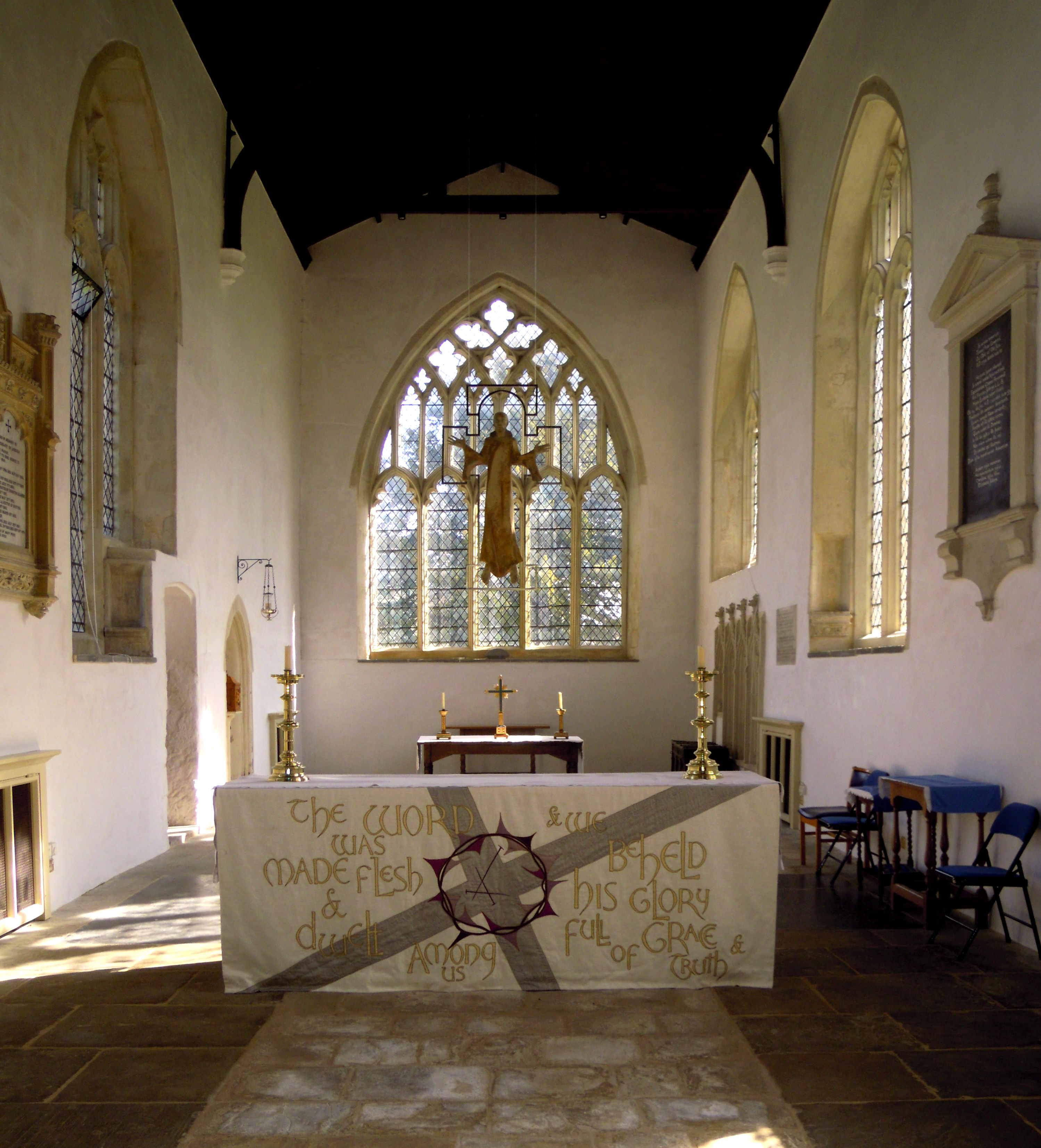 The chancel in the Church of St Mary the Virgin, Ashwell